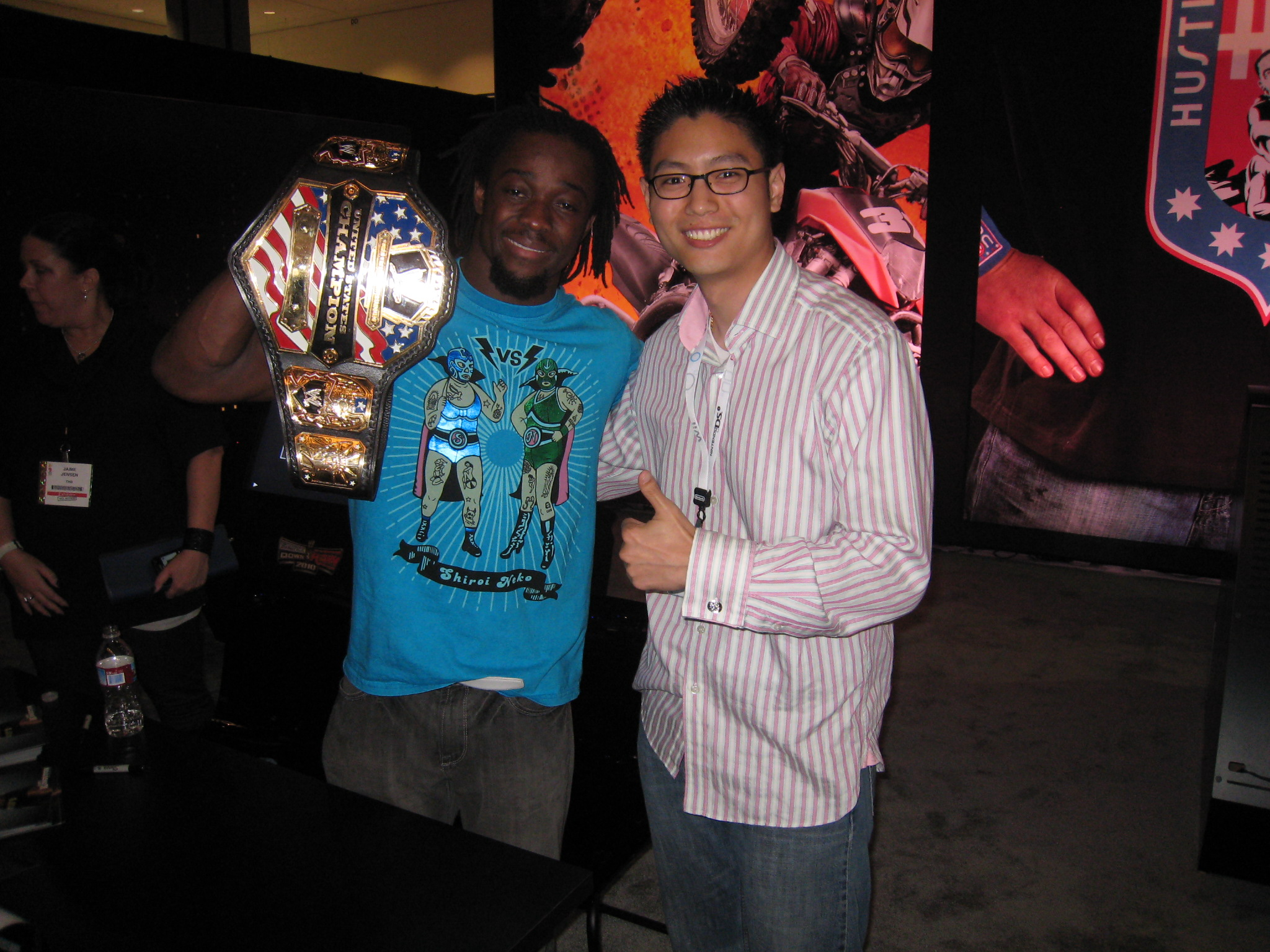 One day after his win at RAW, Kofi Kingston shows off his title. The specter of John Cena looms behind us.